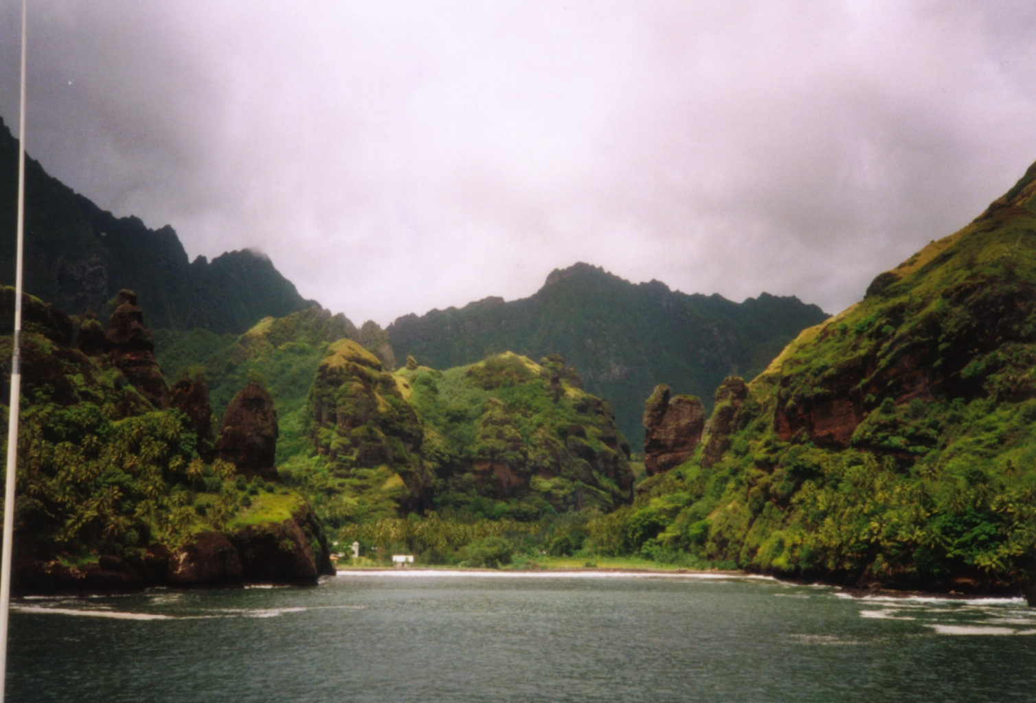 Hanavave Bay, Fatu Hiva Island, Marquesas Islands, French Polynesia